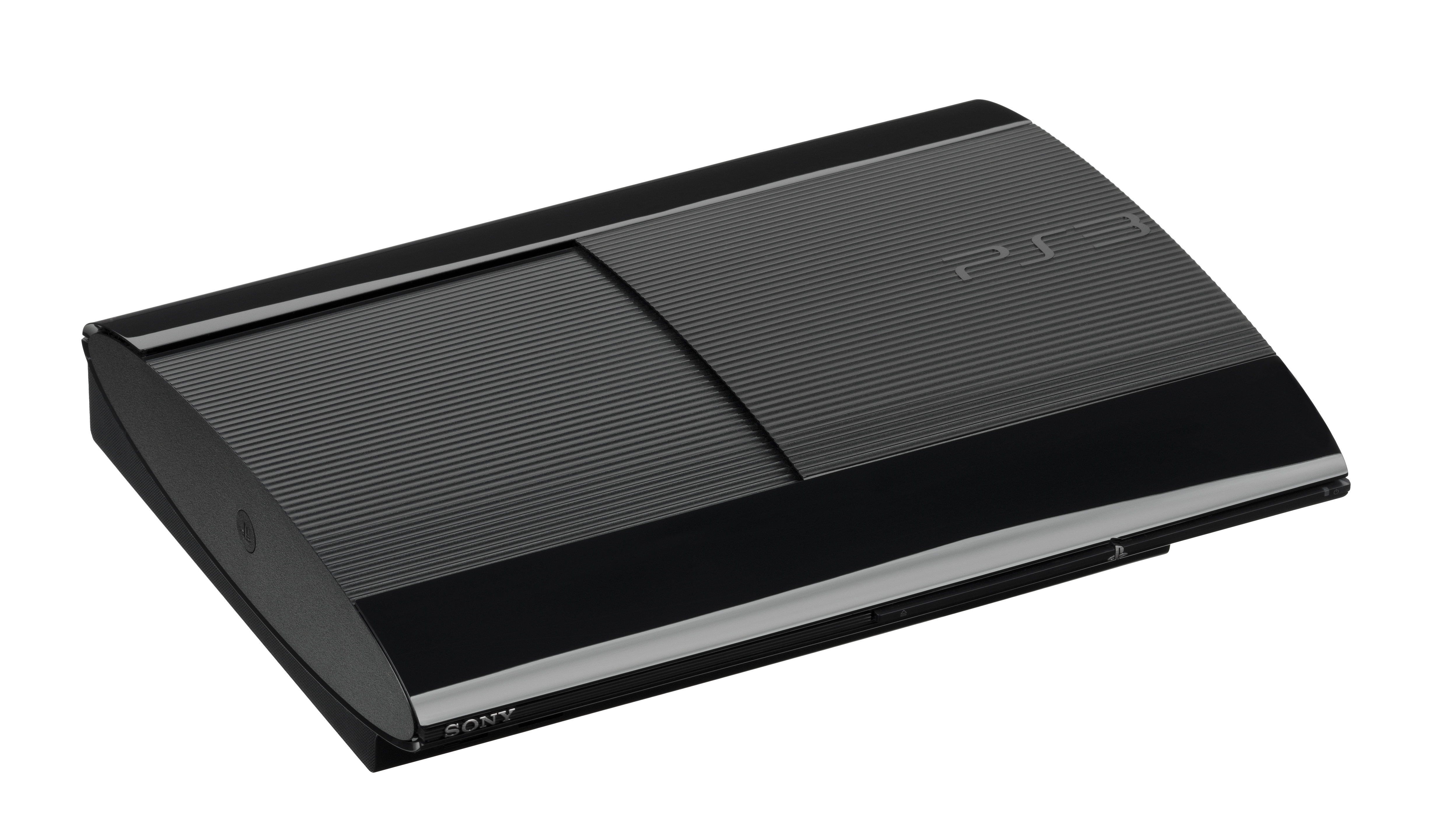 The PlayStation 3 (PS3) gaming console made by Sony. Nicknamed the "Super Slim", it is the third and final hardware design of the PlayStation 3 console. It is smaller and lighter than the previous systems, but the most notable change is the move from a slot-loading Blu-Ray drive to a sliding-door version. Released in late 2012, it was available with either 250GB or 500GB hard drive, or with 12GB of flash memory.